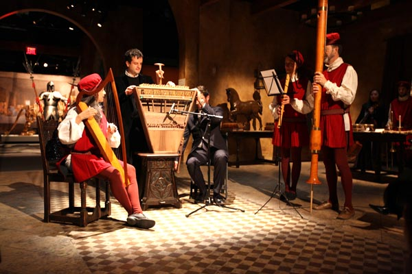 Leonardo3-EdoardoZanon-LeonardoDaVinci-Claviviola-Clavi-Viola-Harpsichord-Viola-Organista-strumentiMusicali-concerto-concert